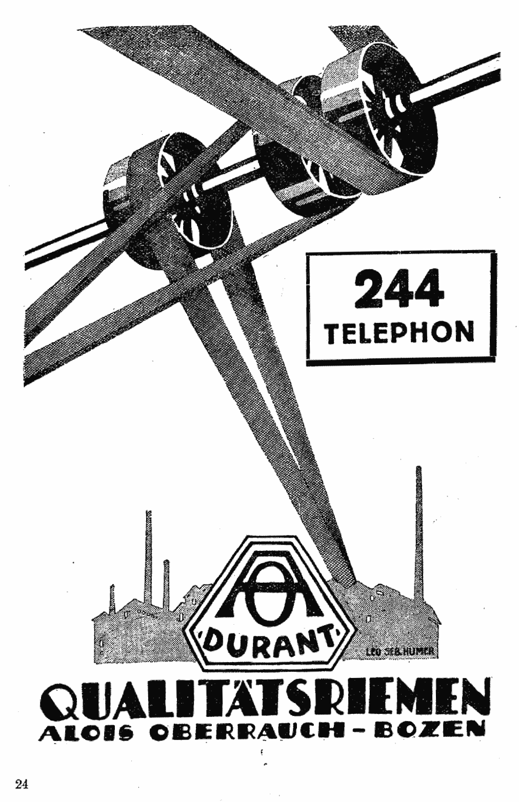 Industrial advertising for mechanical belts, Bozen-Bolzano 1925, Leo Sebastian Humer